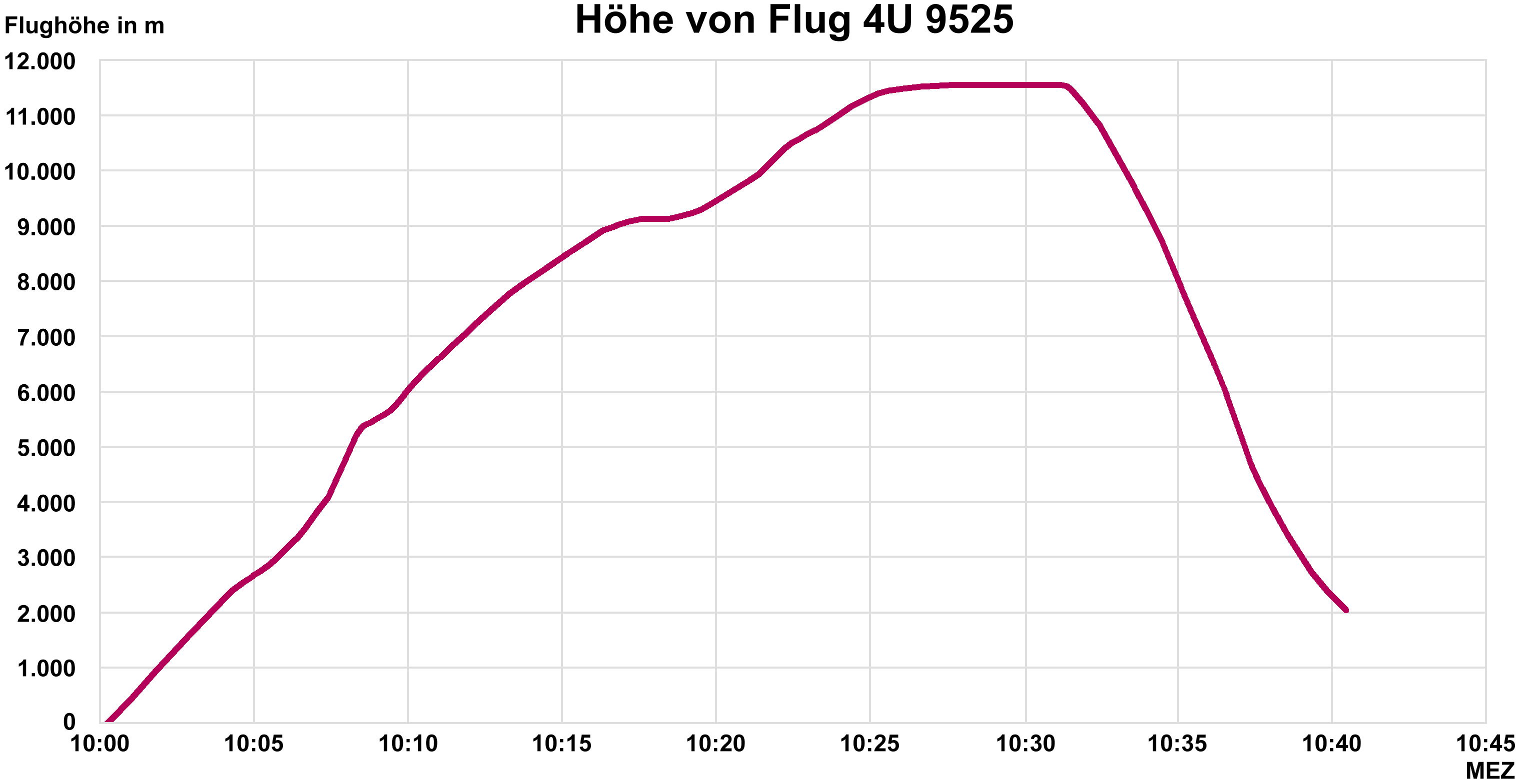 Altitude chart for Germanwings Flight 9525 (crashed), register D-AIPX (German)